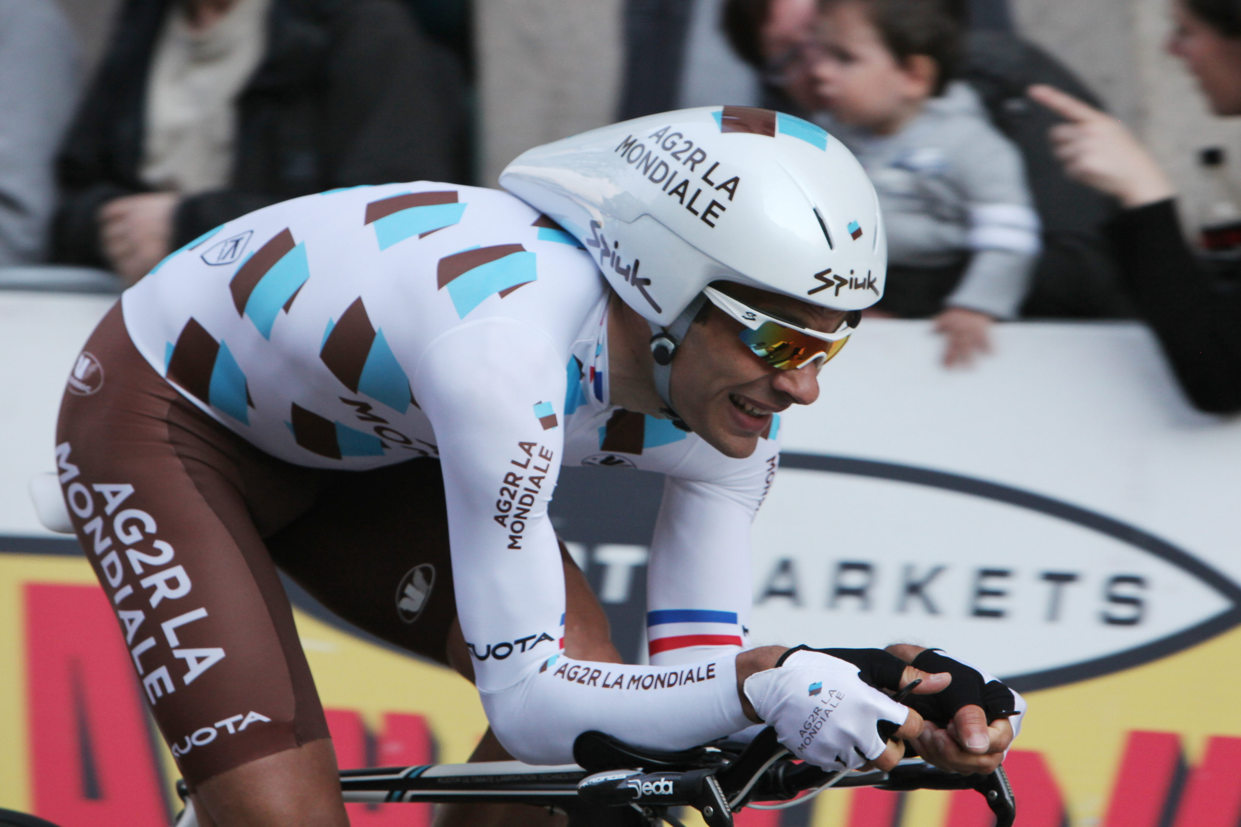 Jean-Christophe Péraud at the prologue of the Tour de Romandie 2011